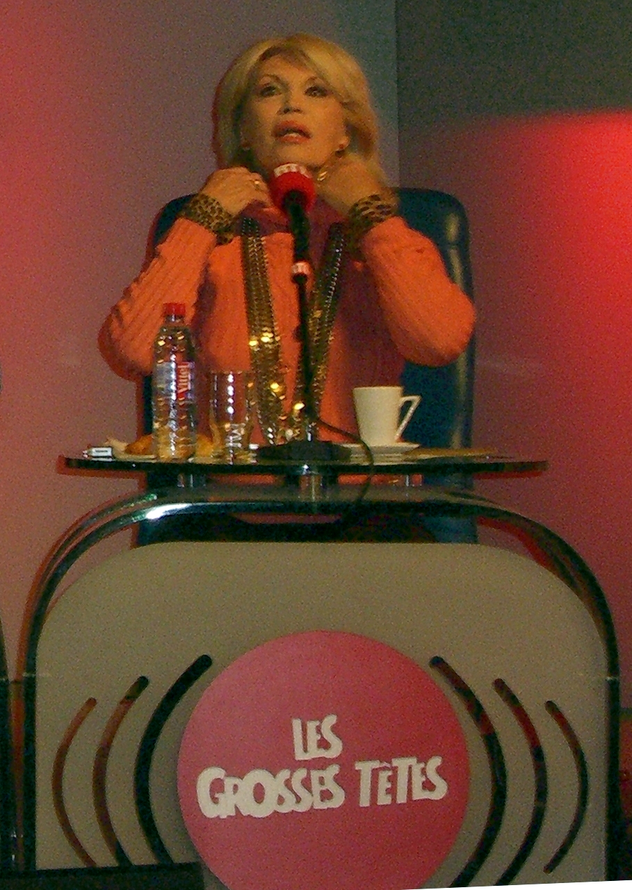 The Shareholders (Jean-Jacques Peroni, Philippe Chevallier and Amanda Lear) of the "Les Grosses Têtes" Philippe Bouvard on RTL.